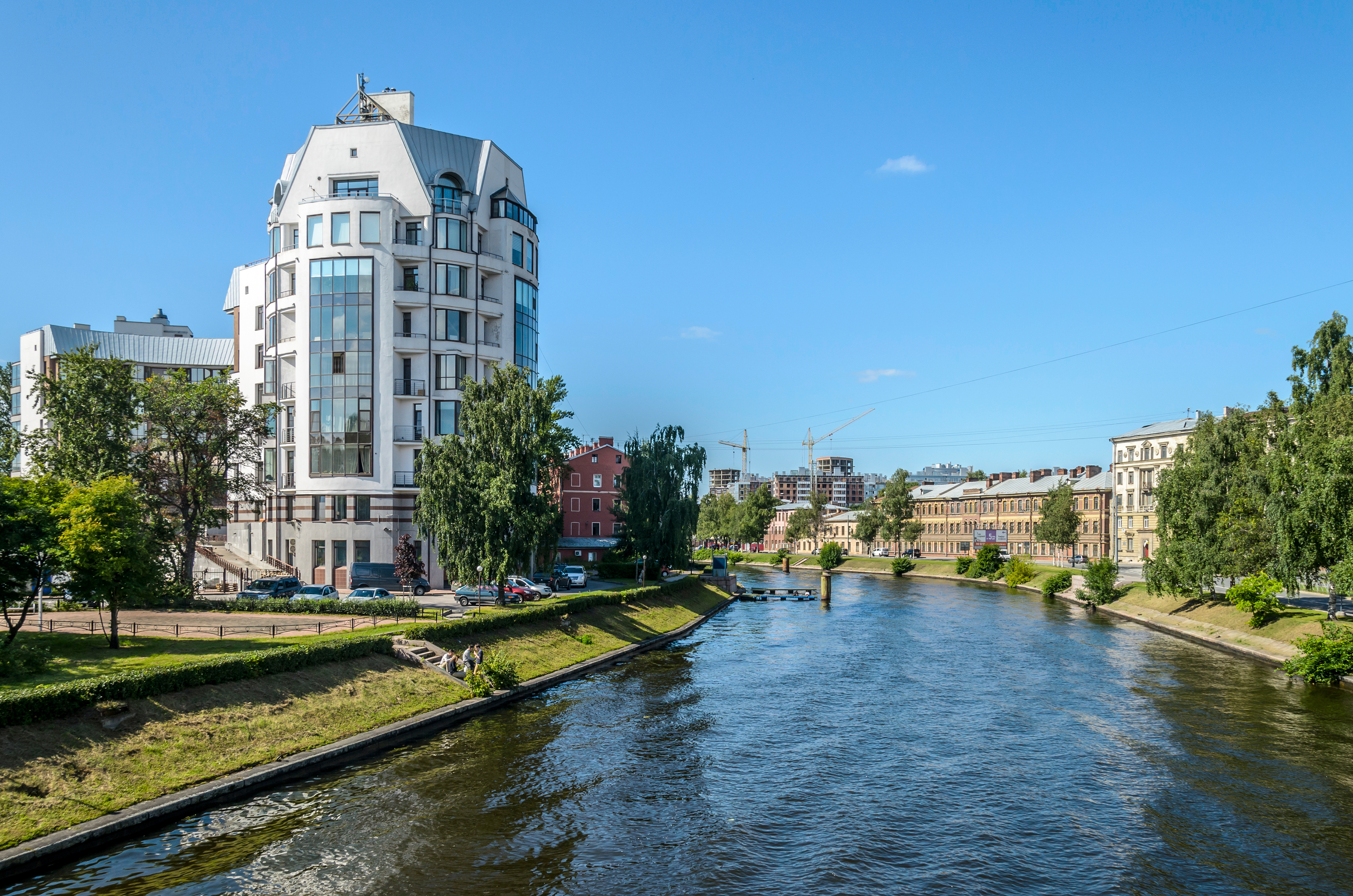 Zhdanovka River in Saint Petersburg